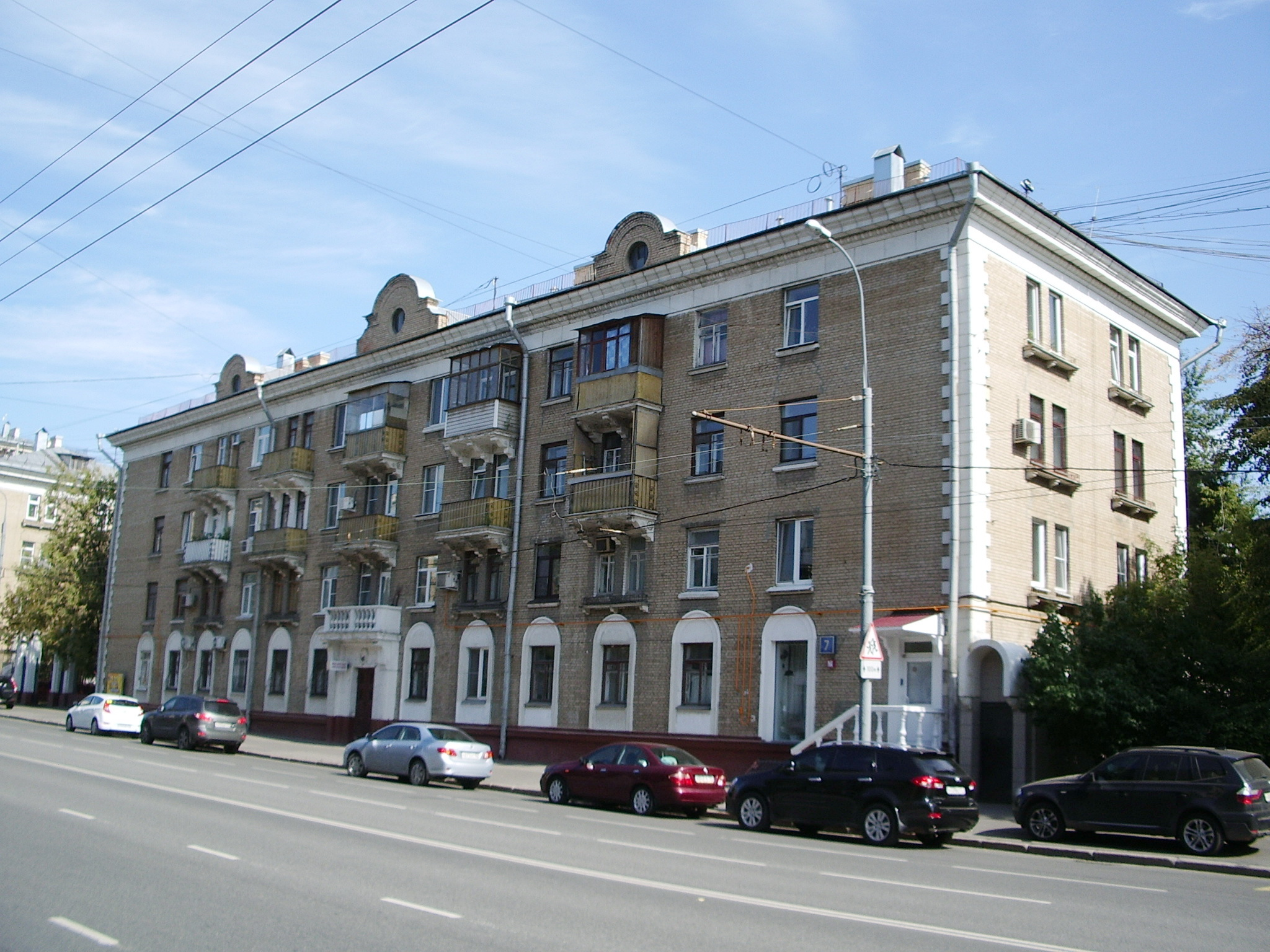 Moscow, Novopeschanaya street 7